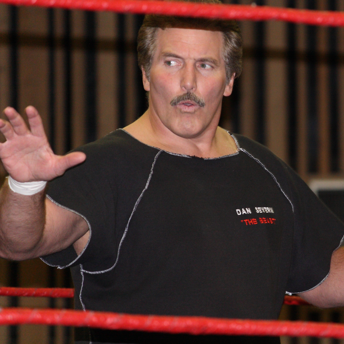 Dan Severn speaking in the ring at a Thrash Wrestling event in Vernon, British Columbia, Canada.